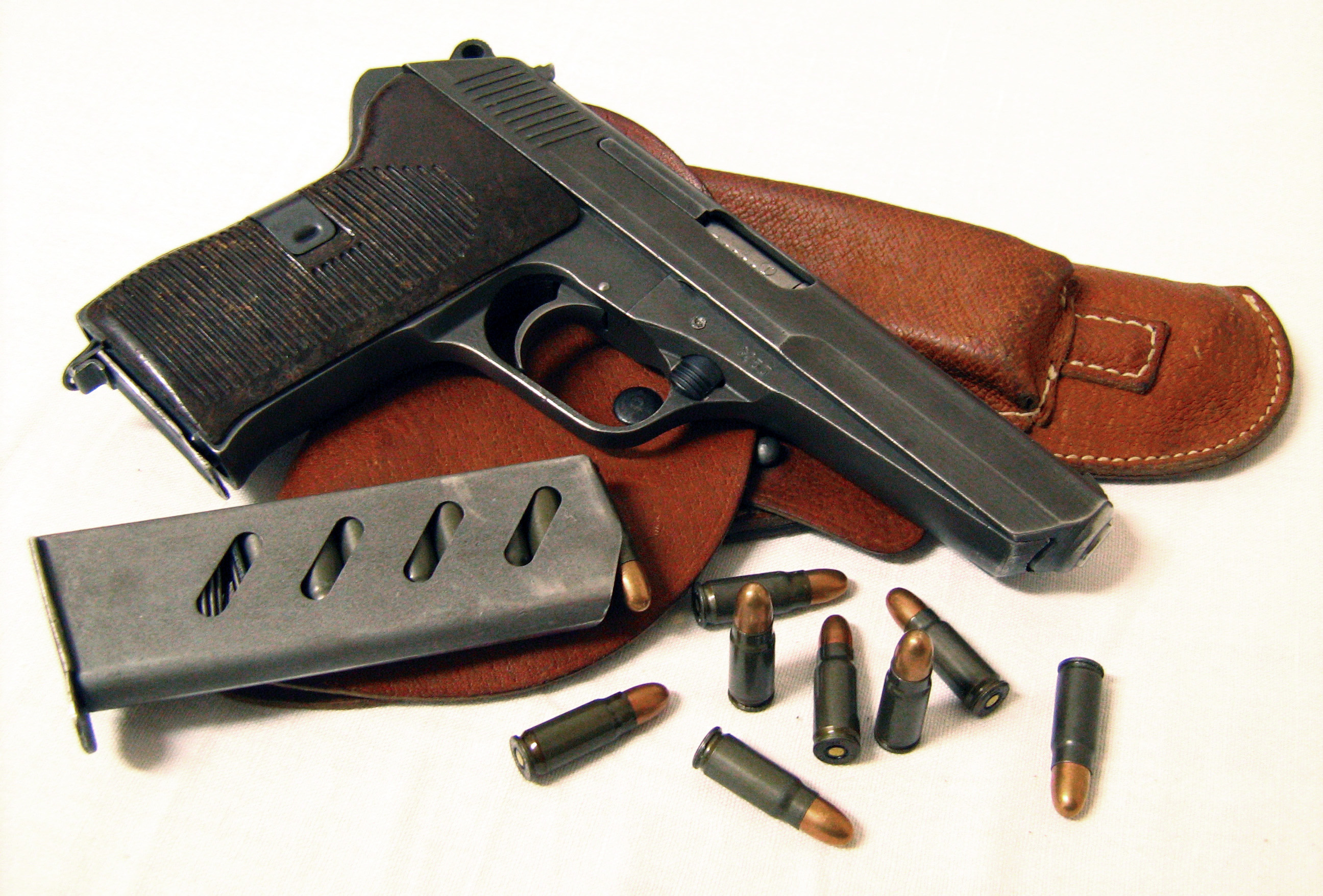 Czechoslovakian ČZ vzor 52 semiautomatic pistol chambered in 7.62x25 mm Tokarev cartridge